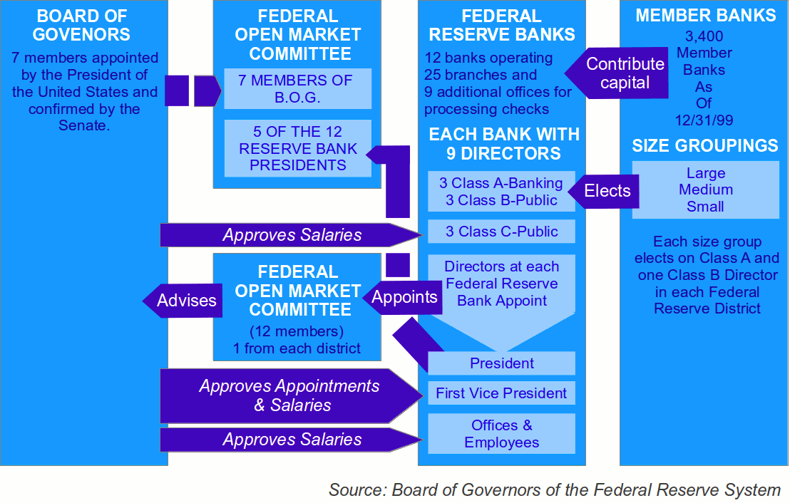 Organization of the Federal Reserve System A diagram showing the organization of the Federal Reserve System. Found on this page: (archive) and located at